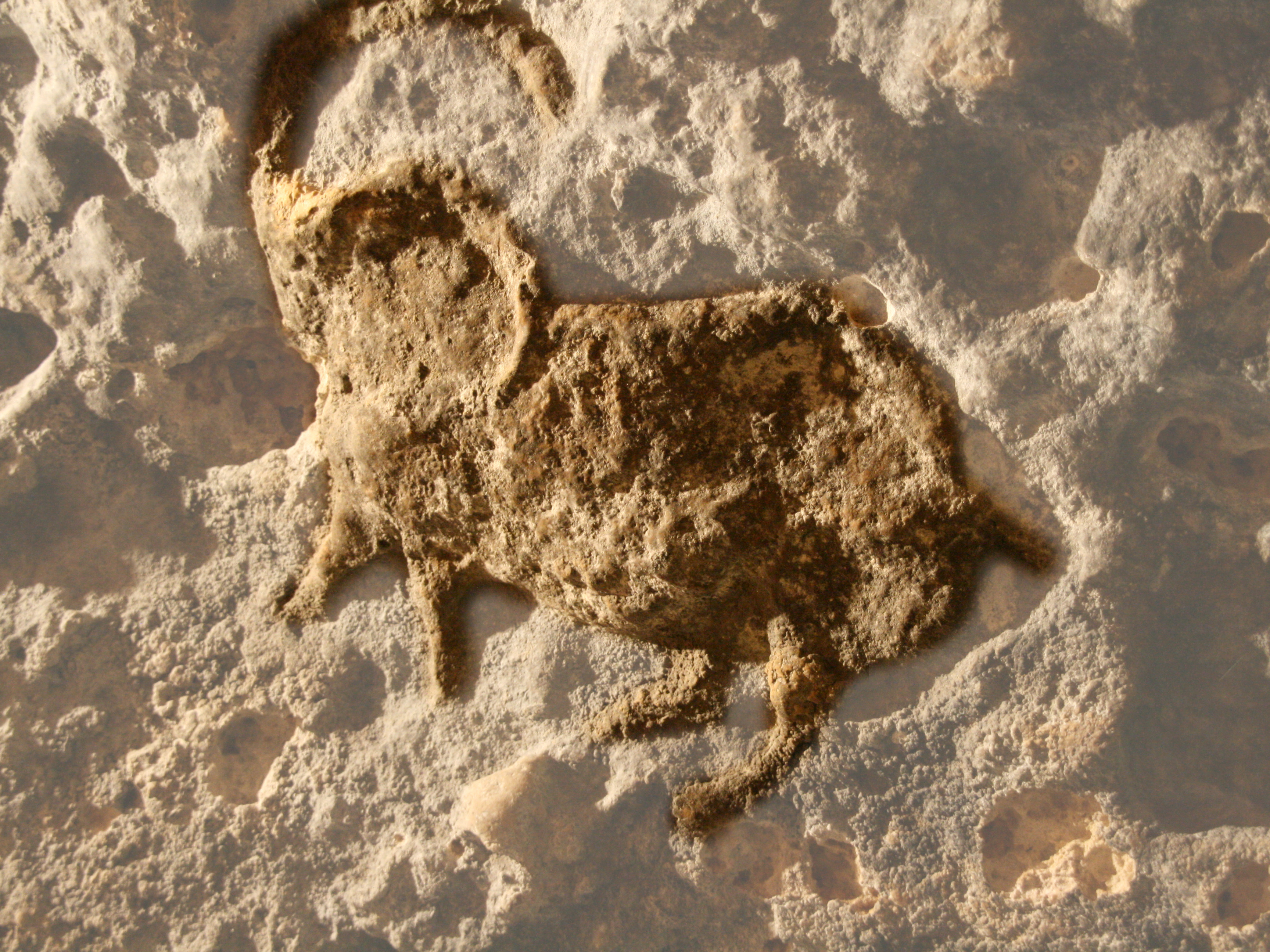 Ibex engraved in the Abri Pataud, a prehistoric rock shelter in Les Eyzies-de-Tayac, Dordogne, Aquitaine, France. 21,000 BP, Solutrean culture. (note: the background is opacified 30% in white.)